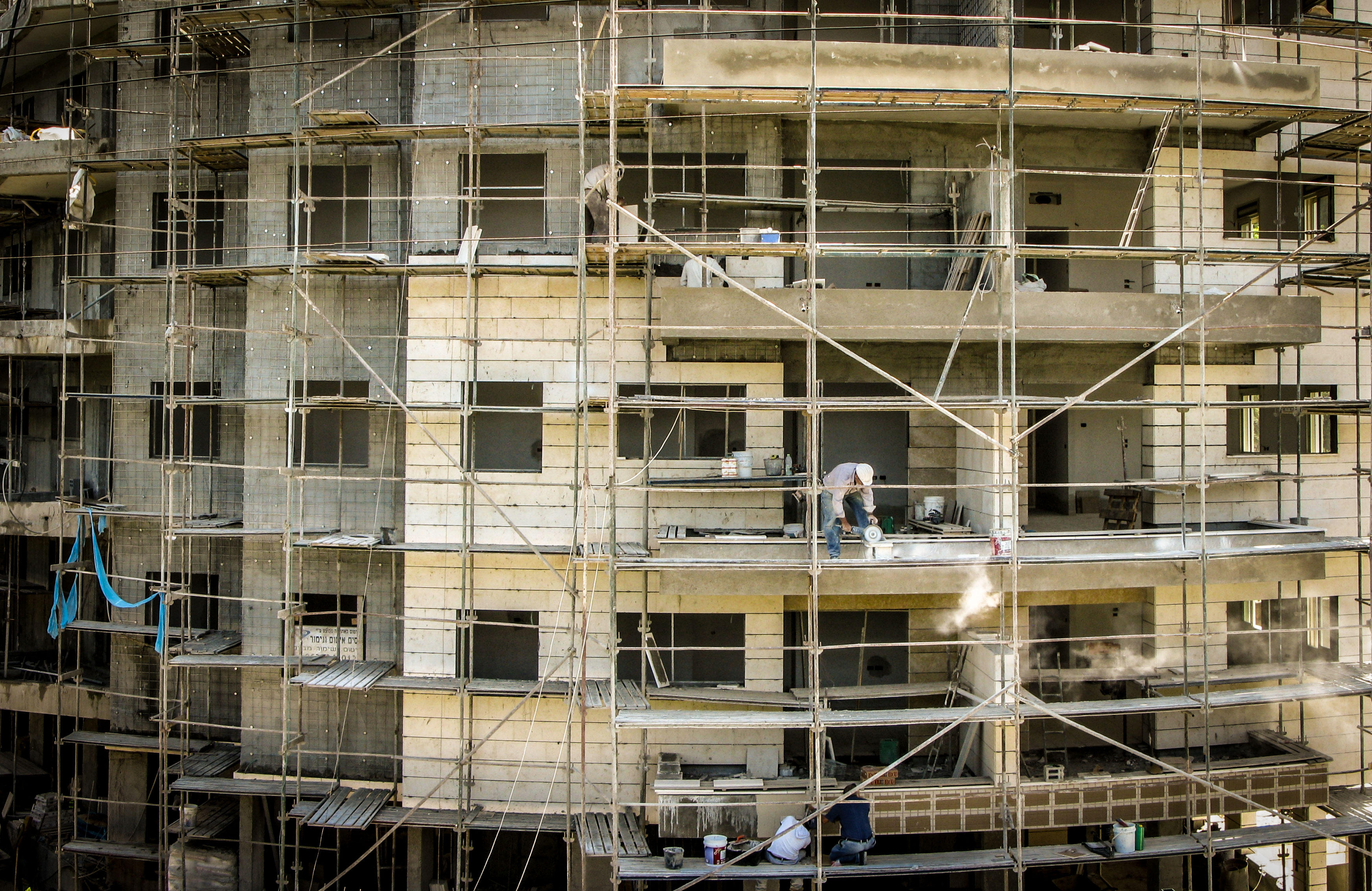 Building Construction work